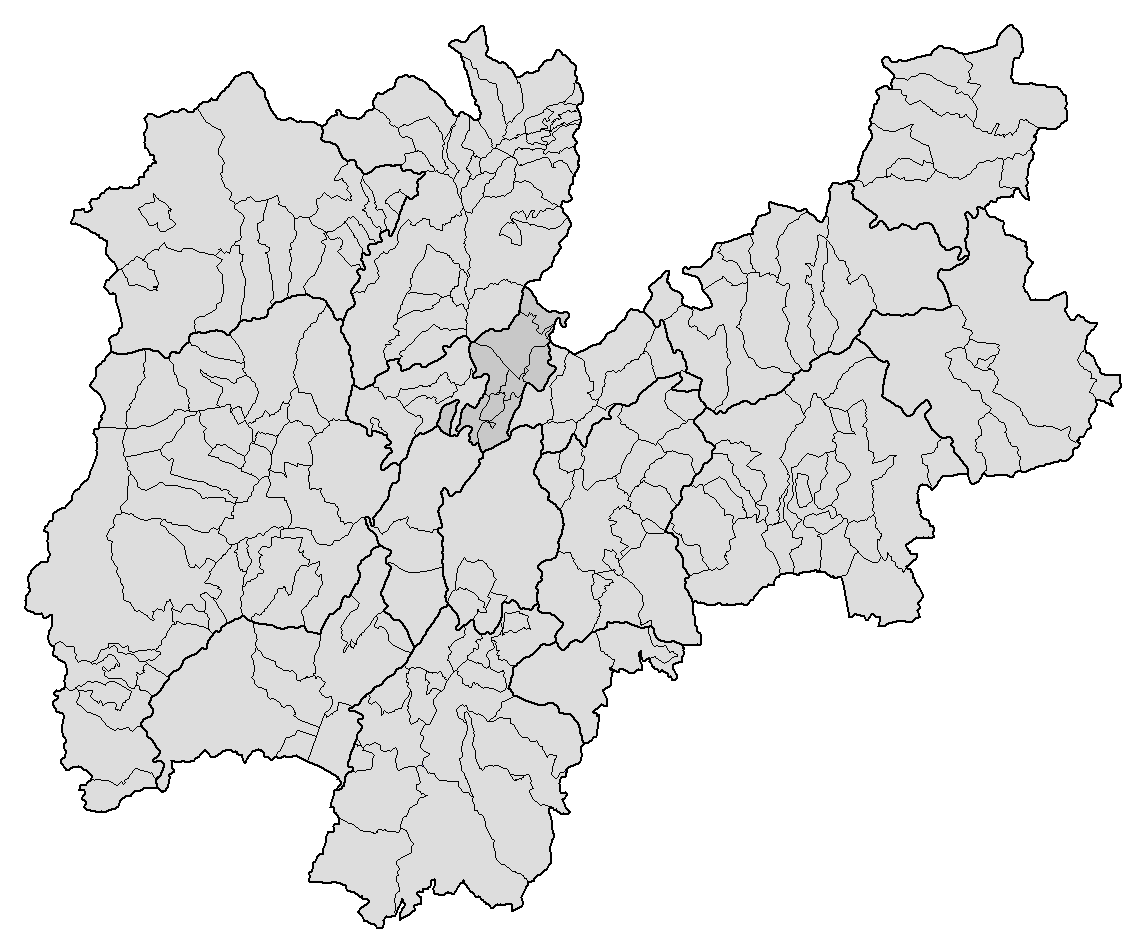 Location map of "Comunità Rotaliana - Könisberg" (13)